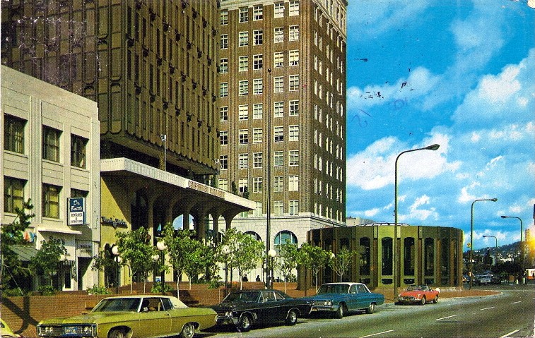 Color photocrome postcard of the Downtown Berkeley BART Station and Berkeley Chamber of Commerce building. The BART station (opened 1973) is seen on the bottom right, 2150 Shattuck high-rise office building (built 1969–1970 by Ibsen/Senty Architecture) is seen on the left-hand side foreground while the Berkeley Chamber of Commerce building (built in 1925 by architect Walter H. Ratcliff, Jr.) is seen in the middle background. View from Shattuck Avenue, looking northwest. The back of the postcard reads: BART STATIONDowntown Shattuck AvenueBERKELEY CHAMBER OF COMMERCEBerkeley, Alameda County, Ca.COLOR BY MIKE ROBERTSBERKELEY, CALIF. 94710SC13452